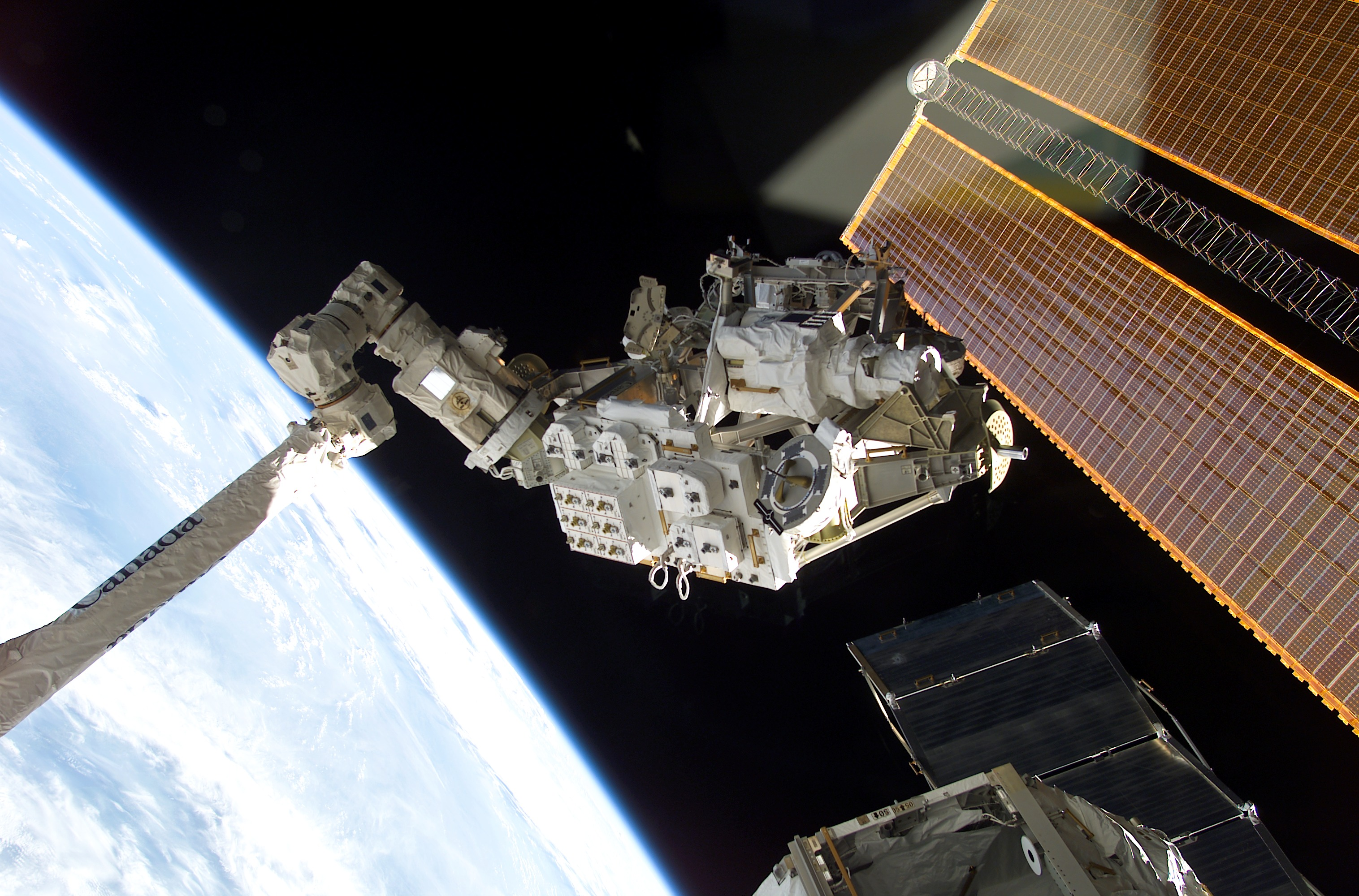 Backdropped by the blackness of space and Earth’s horizon, the Mobile Remote Servicer Base System (MBS) is moved by the Canadarm2 for installation on the International Space Station (ISS). Astronauts Peggy A. Whitson, Expedition Five flight engineer, and Carl E. Walz, Expedition Four flight engineer, attached the MBS to the Mobile Transporter on the S0 (S-zero) Truss at 8:03 a.m. (CDT) on June 10, 2002. The MBS is an important part of the station’s Mobile Servicing System, which will allow the station’s robotic arm to travel the length of the station to perform construction tasks.